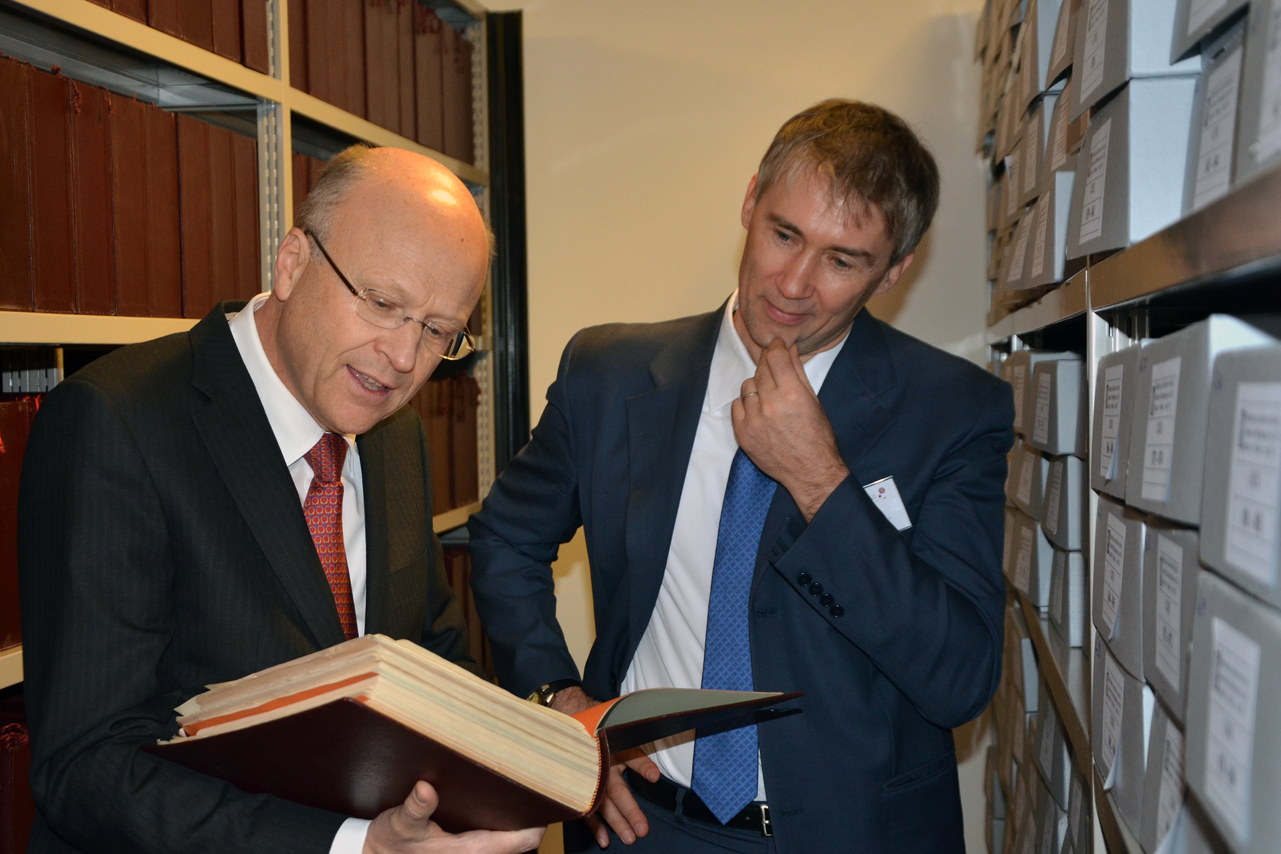 9 December 2015 - Historical Archives of the European Union - Villa Salviati